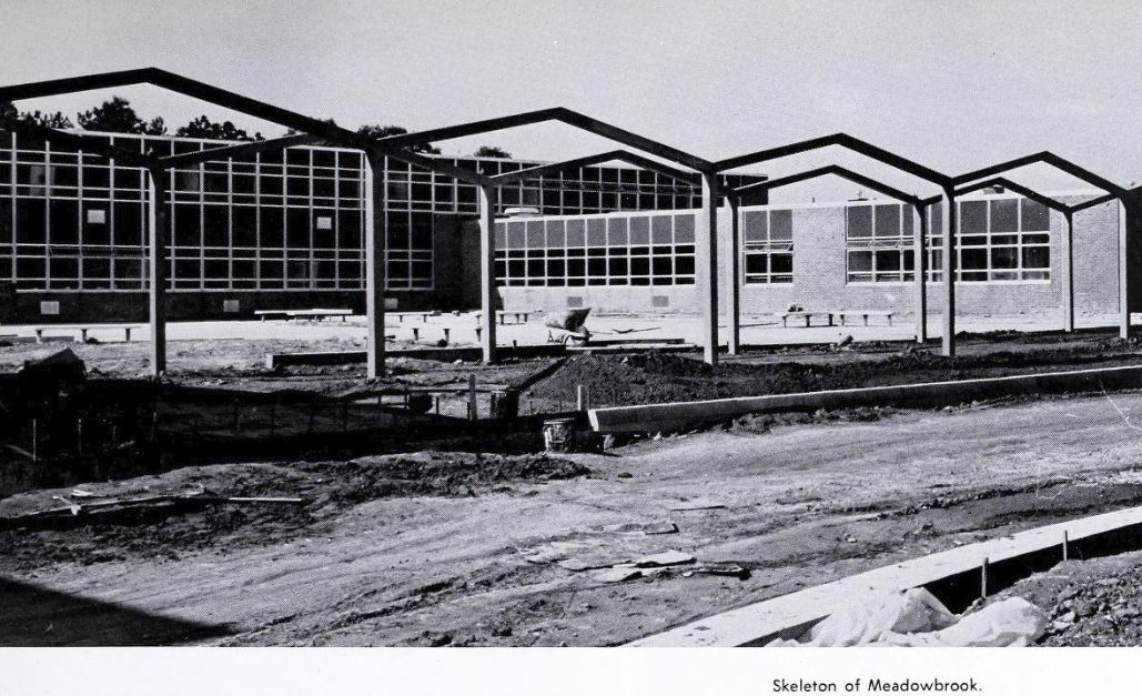 Skelton of Meadowbrook